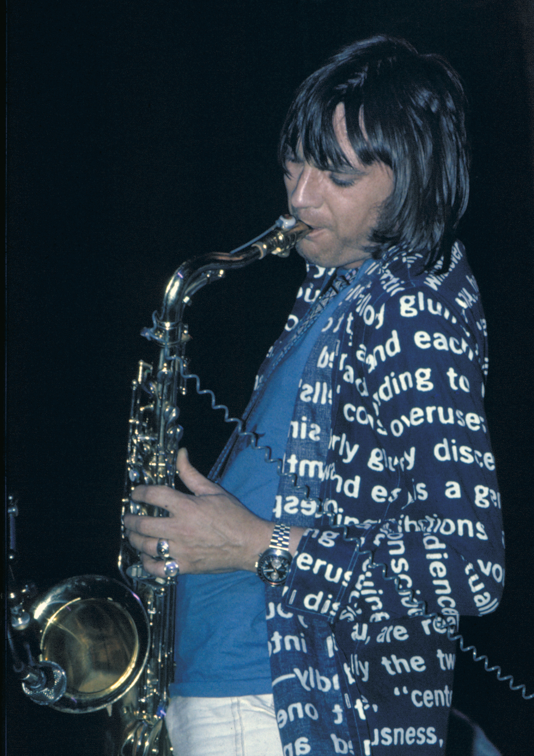 Chris Wood, English saxophonist